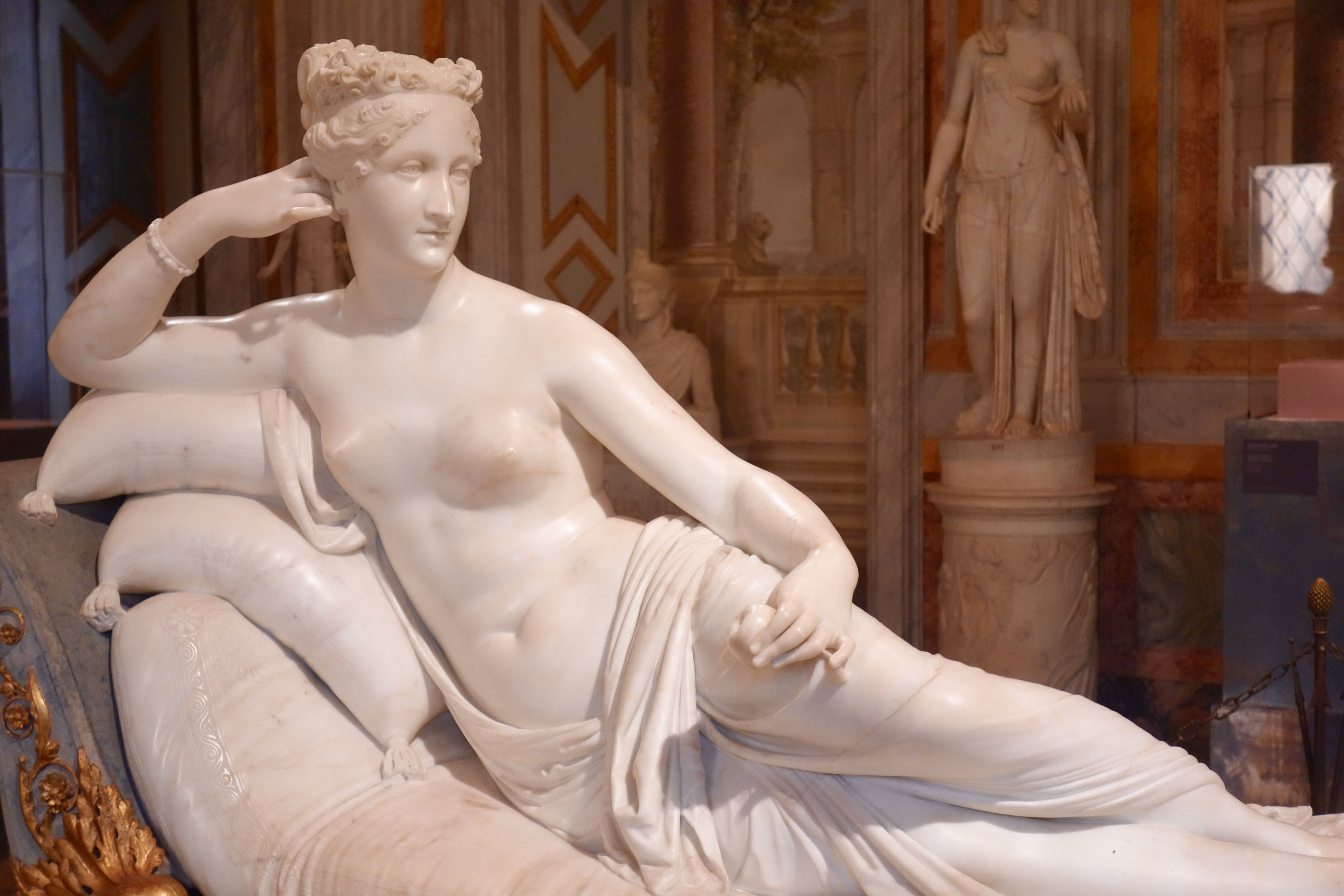 Rome, Italy